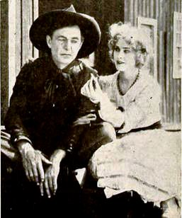 Still from the American western film Ace of the Saddle with Harry Carey and Viola Barry, page 740 of the July 19, 1919 Motion Picture News.